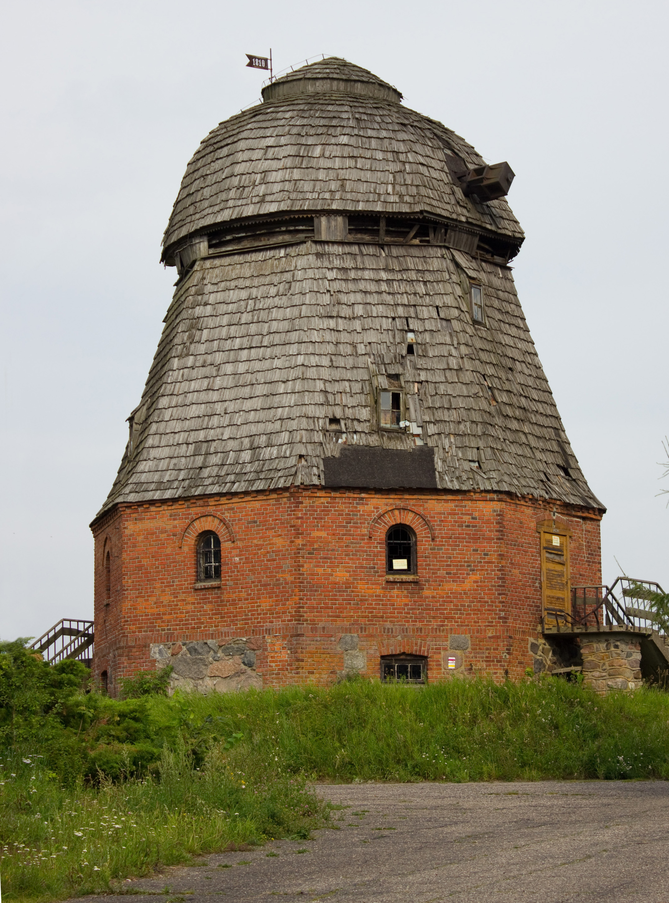 Bęsia, gmina Kolno, powiat olsztyński, Warmian-Masurian Voivodeship